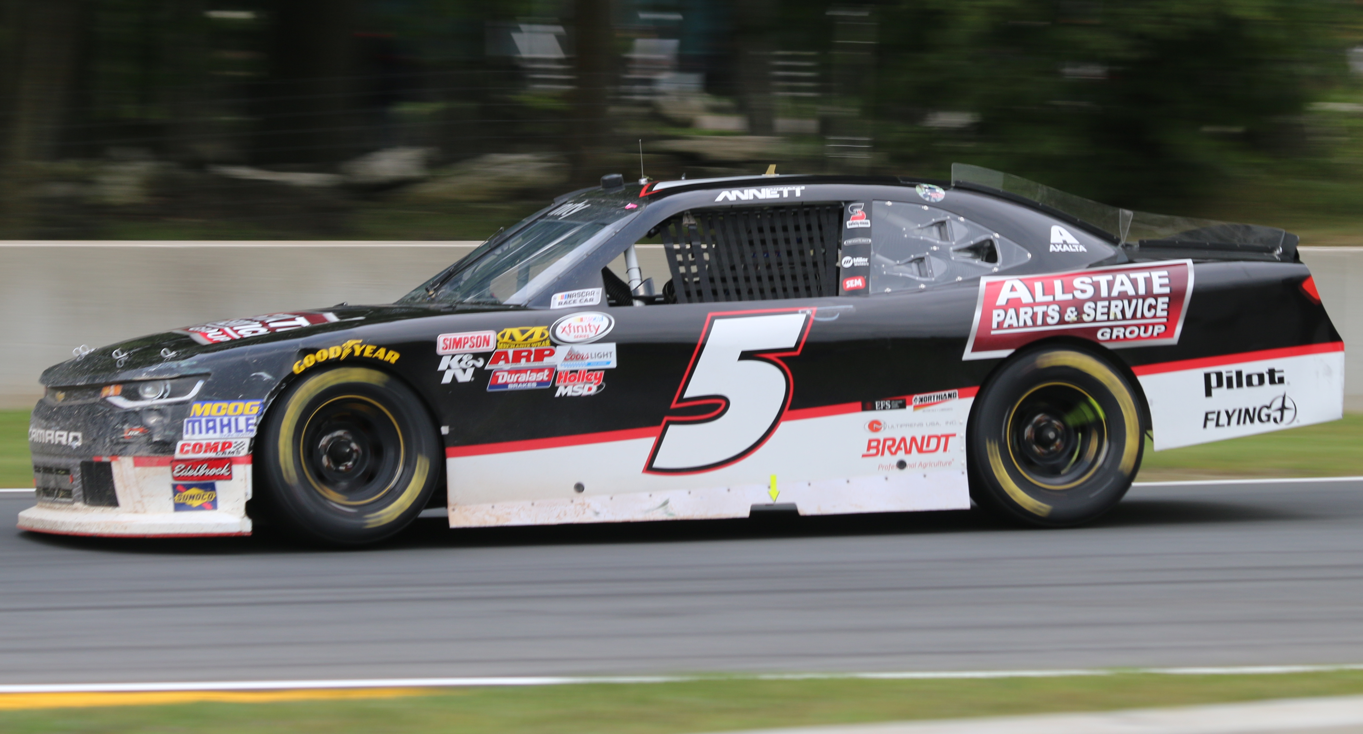 The Chevrolet Camaro of Michael Annett at the NASCAR Xfinity Series Johnsonville 180.